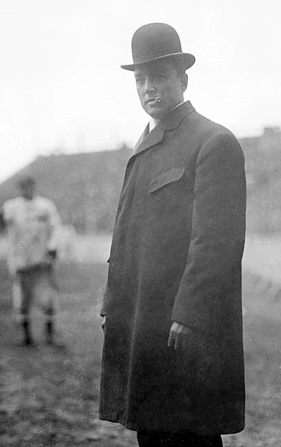 Three quarter length portrait of Jimmy McAleer, manager of the American League's St. Louis Browns manager, smoking a cigar and standing in foul area at South Side Park in the Armour Square community area of Chicago, Illinois, 1905. From the Chicago Daily News collection. (Photo by Chicago History Museum).